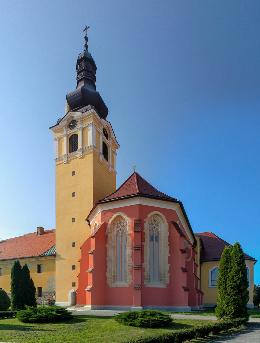 Church Našice